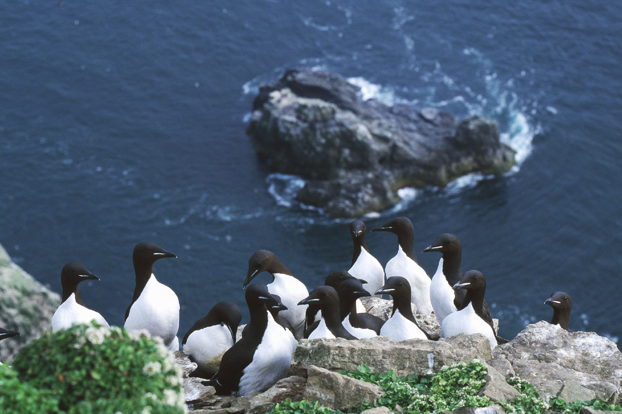 Uria lomvia, Brunnich´s Guillemot, at bird cliff of Stappen, southern Bear Island (Bjoernoeya), Barentsea, Svalbard